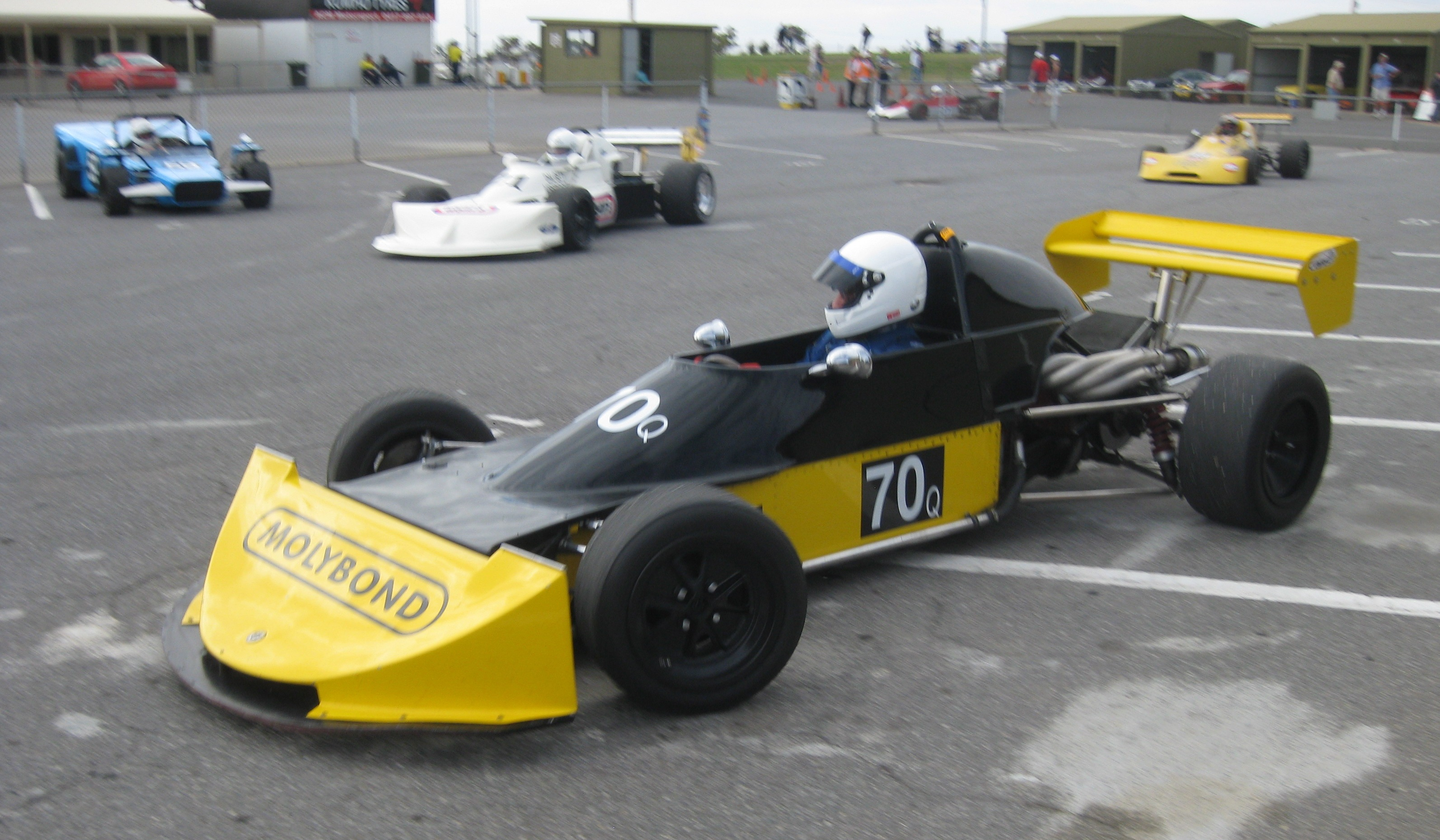 1976 Elfin 700 of Keith Morling at Mallala Motor Sport Park on 3 April 2010.